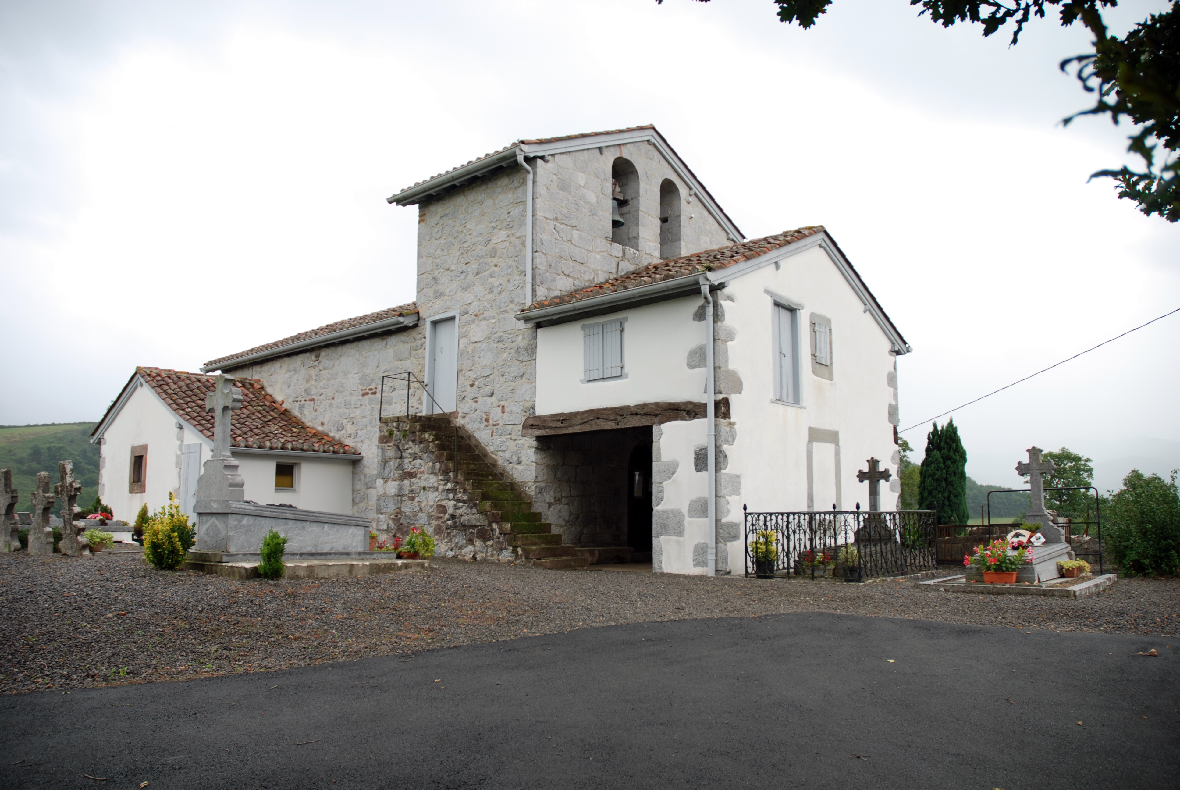 Bustince-Iriberry - Eglise Saint-Vincent